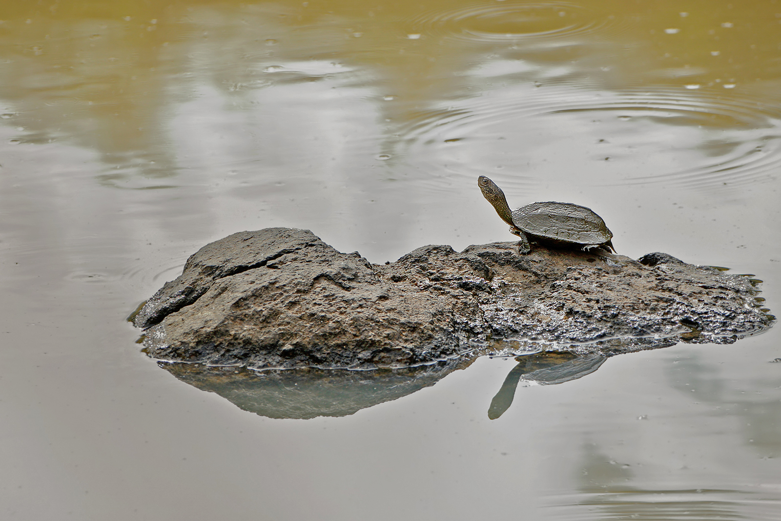 seen in Kabini Nagarahole National Park